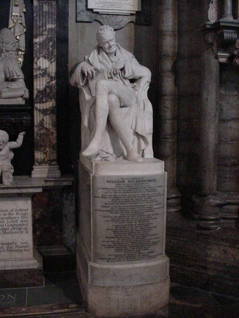 Memorial to William Wilberforce, pictured on 21 March 2001. Photo taken with Sony Mavica FD-88.